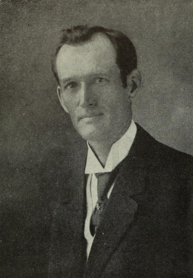 Portrait of Harold Bell Wright